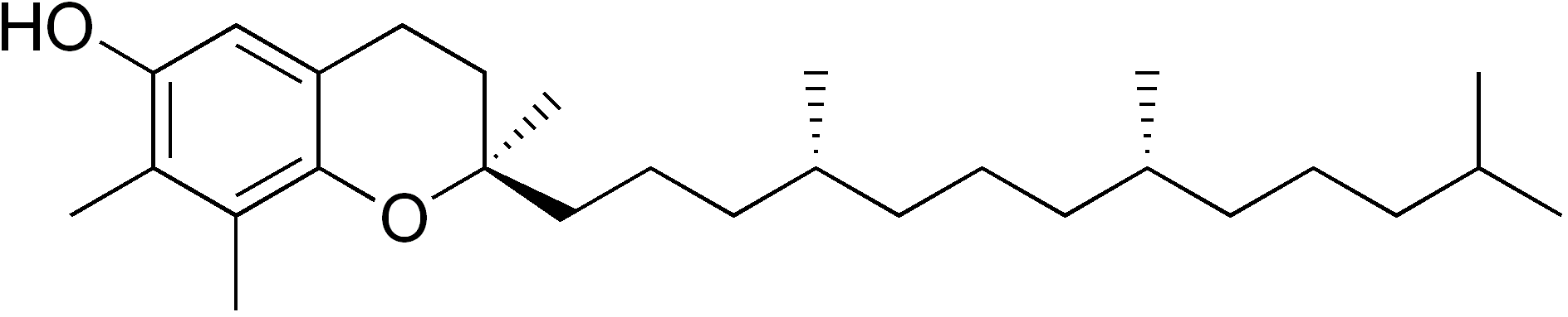 chemical structure of gamma-tocopherol